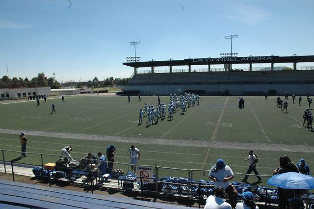 American football game between the ITESM-Campus Ciudad de Mexico youth team división C and that of ITESM Campus Toluca